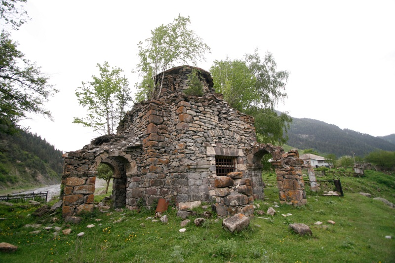 Zgubir (South Ossetia)